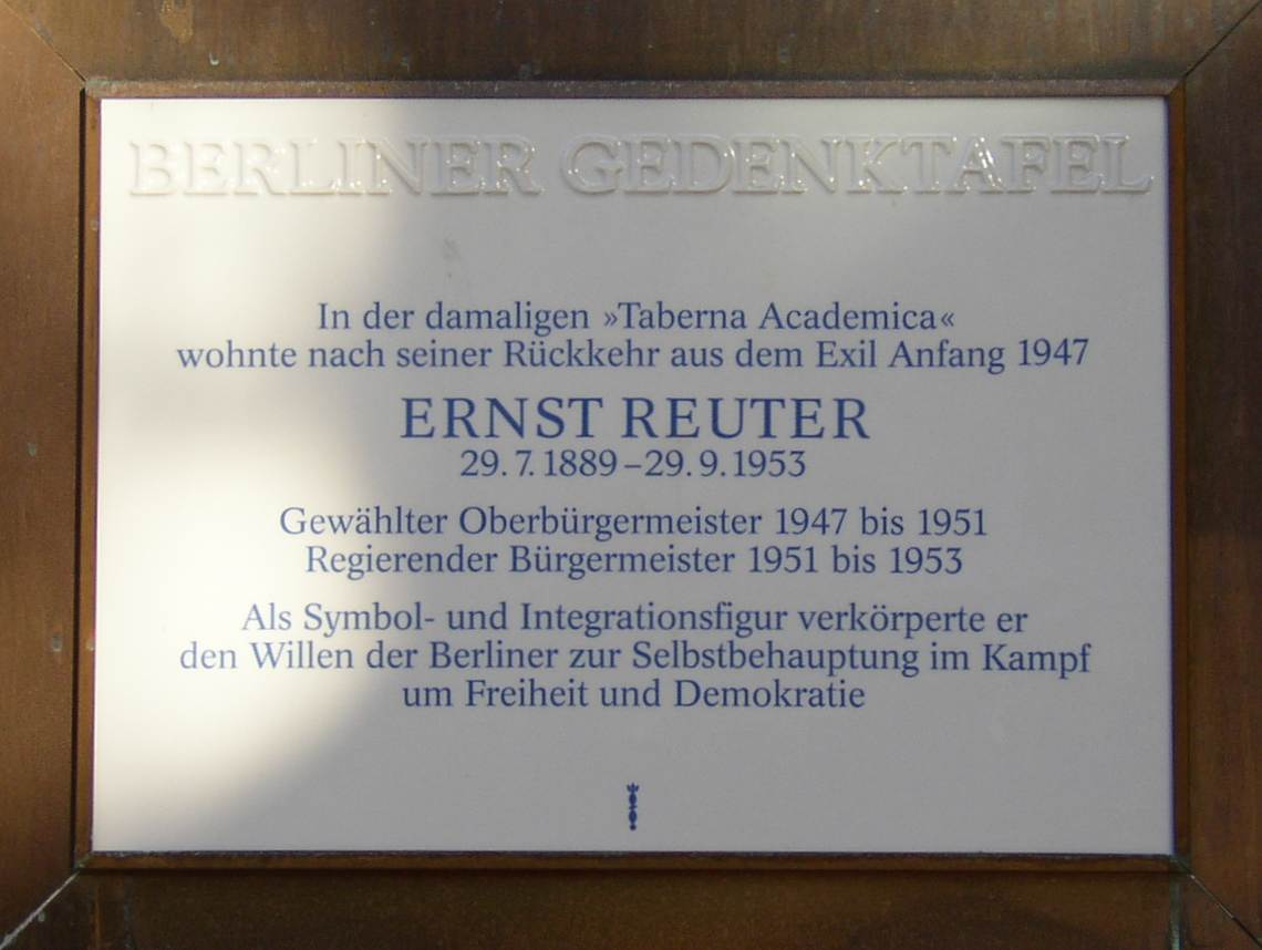 Berlin memorial plaque for Ernst Reuter in Berlin-Charlottenburg, Germany BERLINER GEDENKTAFEL In der damaligen »Taberna Academica« wohnte nach seiner Ruckkehr aus dem Exil Anfang 1947 ERNST REUTER 29.7.1889 – 29.9.1953 Gewählter Oberbürgermeister 1947 bis 1951 Regierender Oberbürgermeister 1951 bis 1953 Als Symbol- und Integrationsfigur verkörperte er den Willen der Berliner zur Selbstbehauptung im Kampf um Freiheit und Demokratie